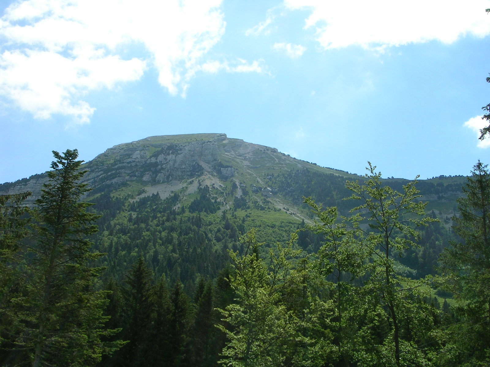 my own photograph